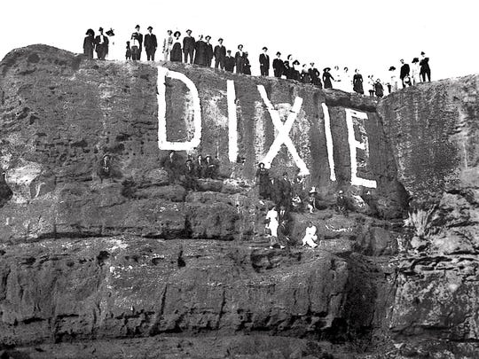 The St. George UtahSugarloaf newly painted with the word "Dixie"